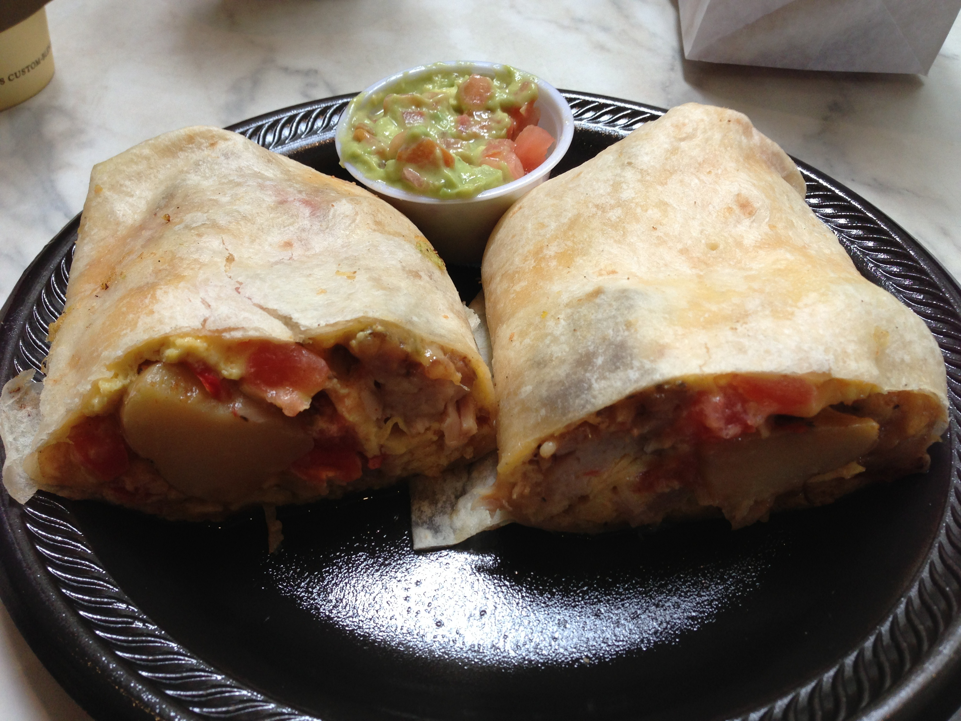 Pork machaca with eggs, served with potatoes and salsa and wrapped in a tortilla.